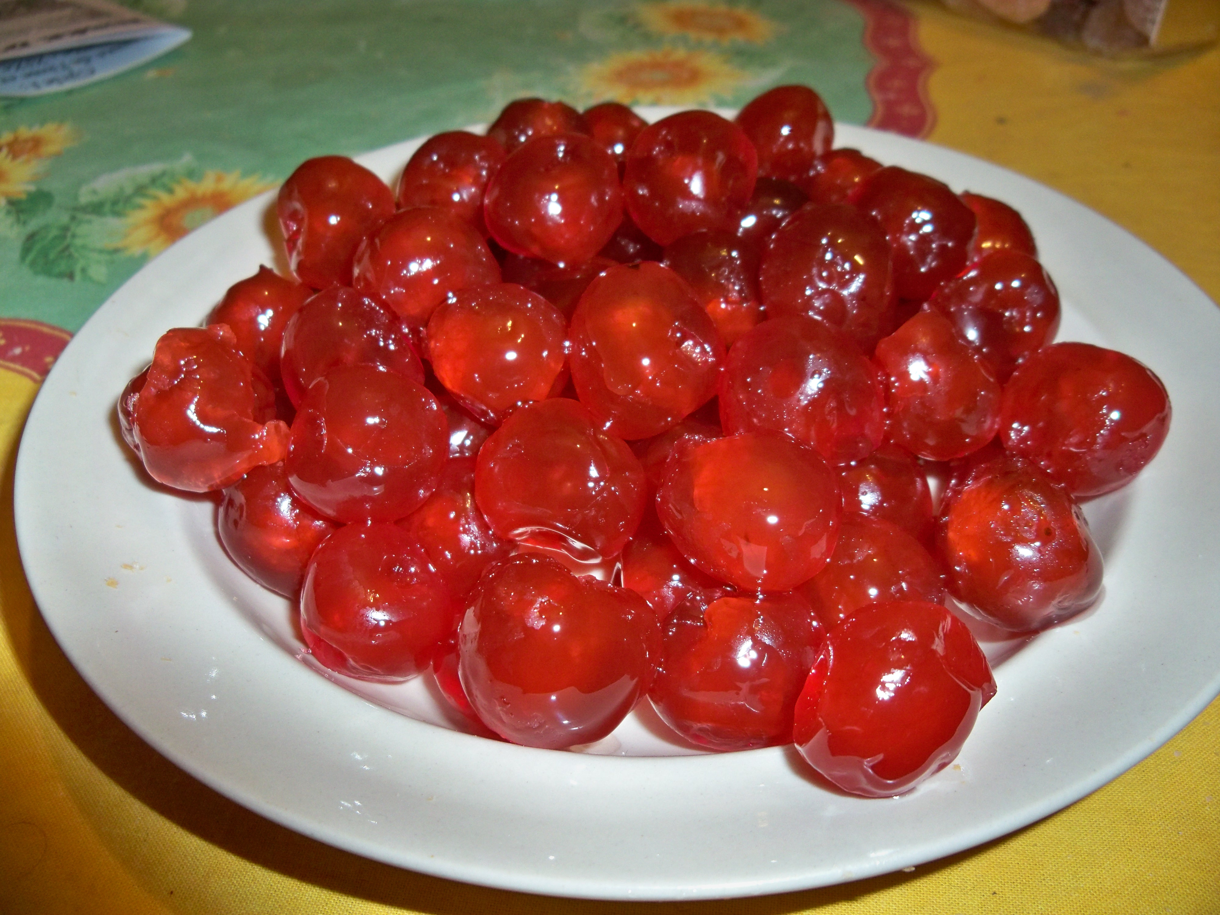 Candied fruits (Cherries), from Apt, Vaucluse, France